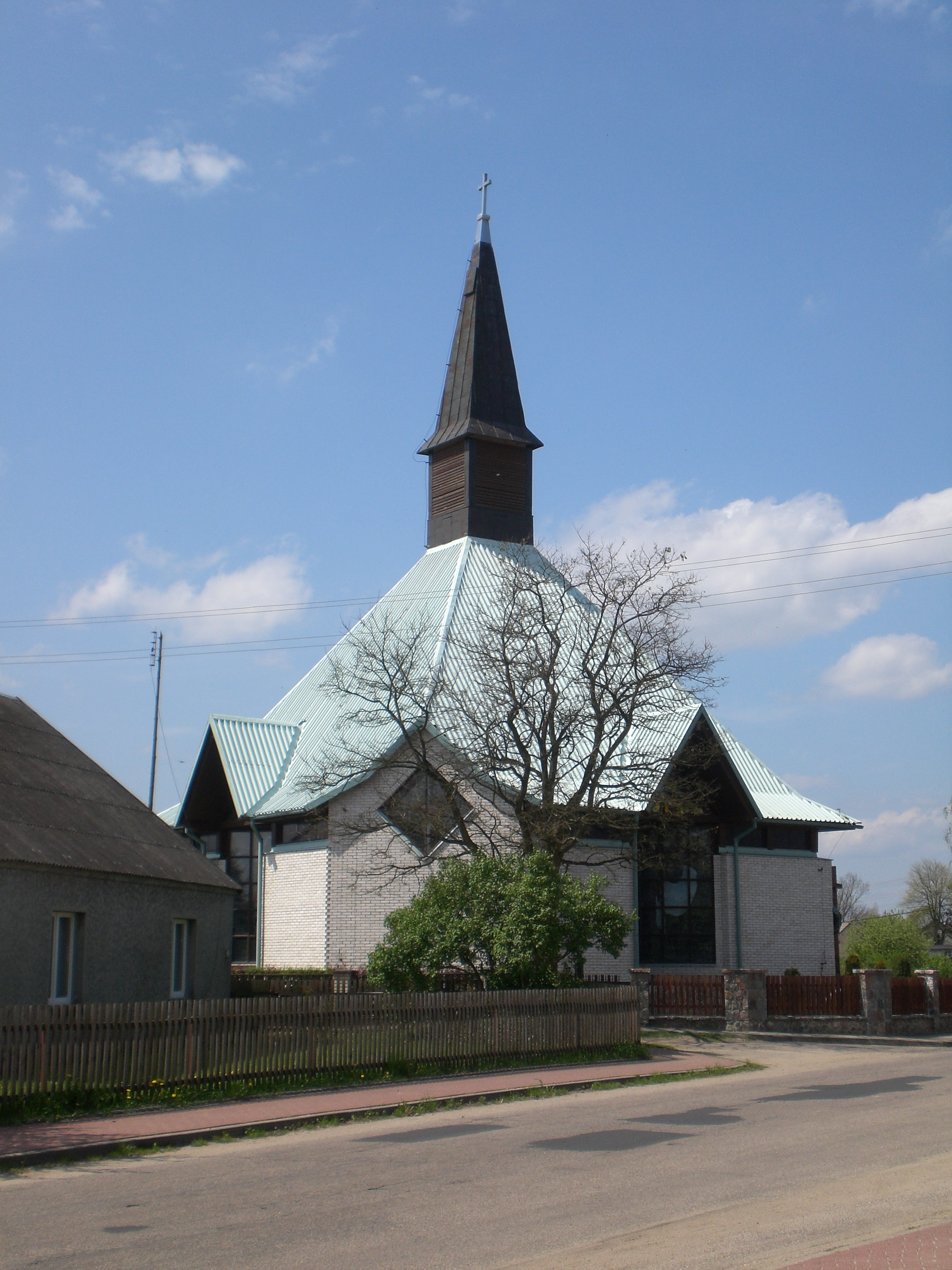 Church of the Assumption in Wąglikowice, Poland